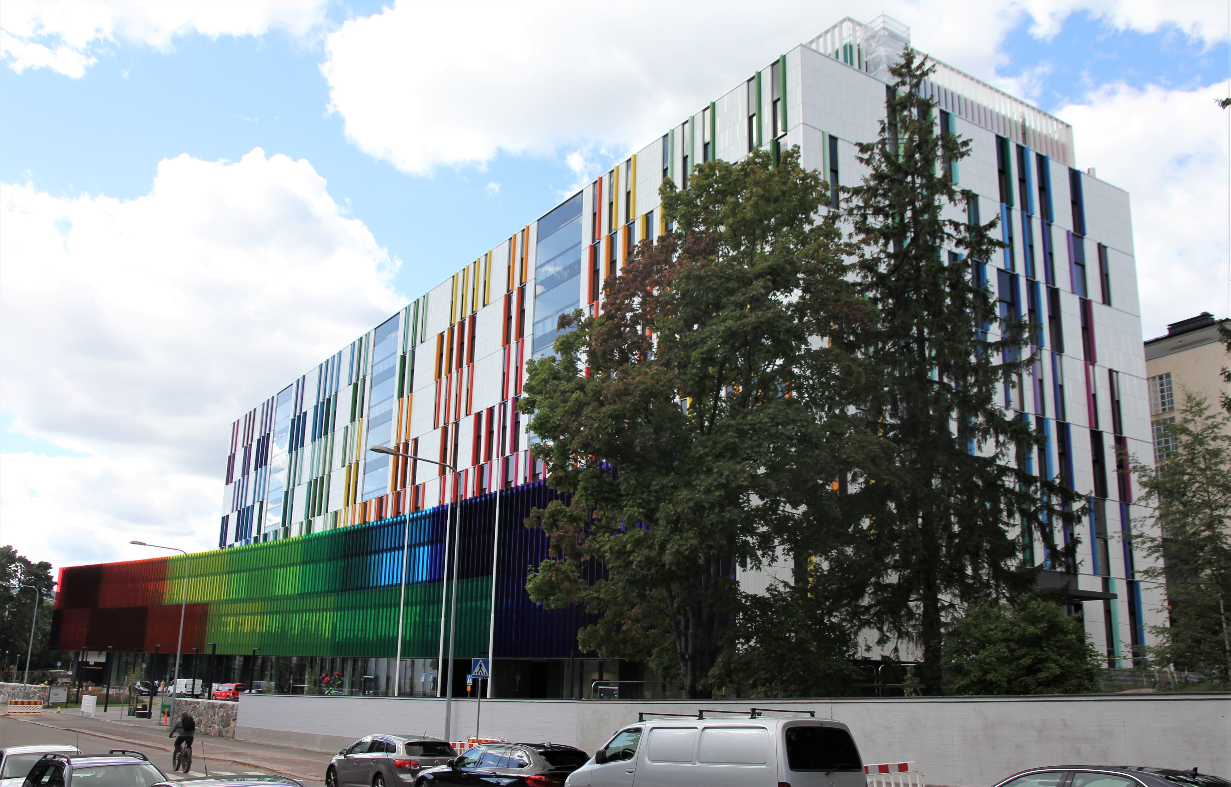 New Children's Hospital in Meilahti, Helsinki, Finland. Address: Stenbäckinkatu 9, Helsinki. Hospital goes operational in September 2018.